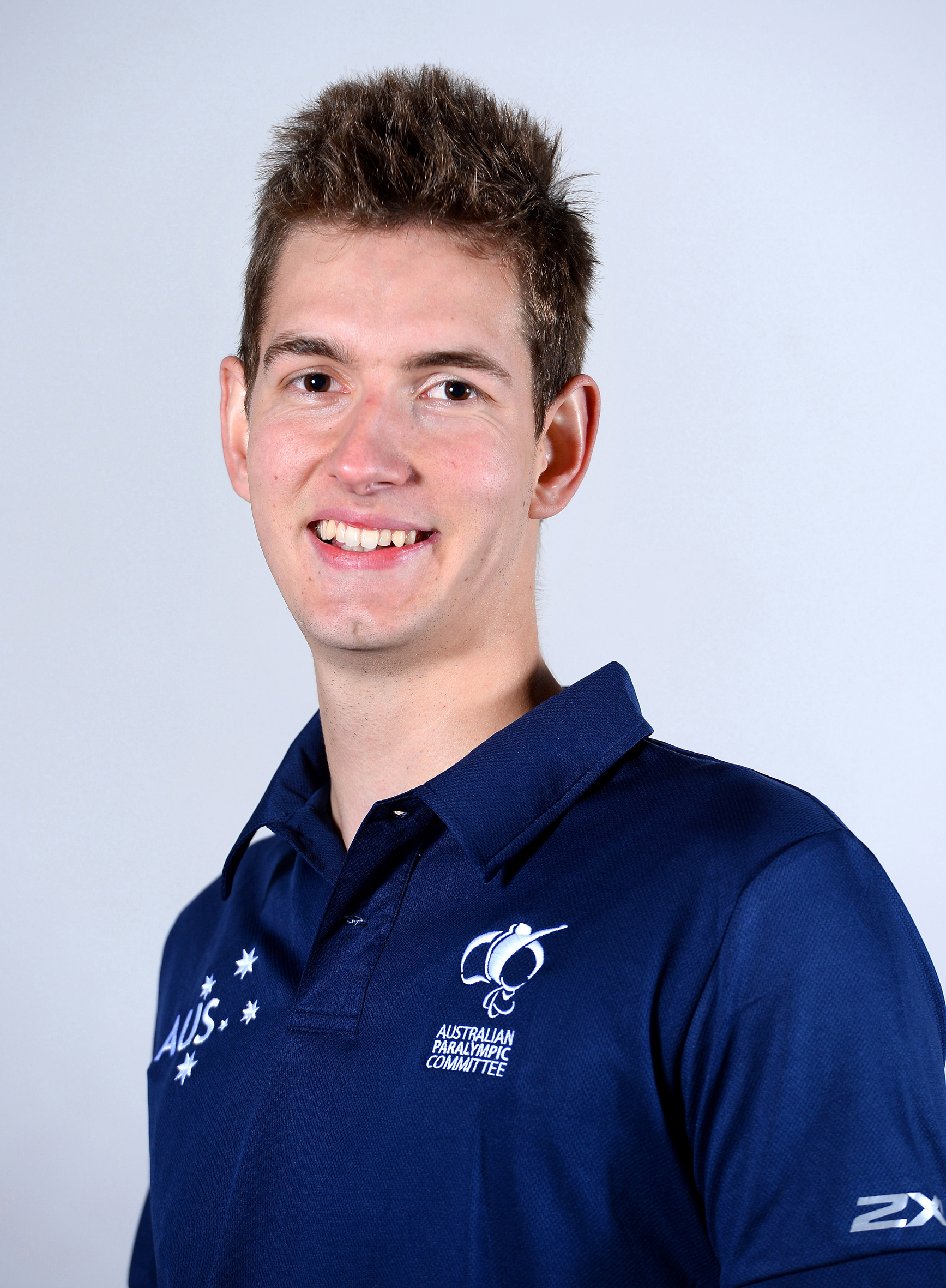 Portrait photograph of Matthew Haanappel taken at team processing session for shadow members of 2016 Australian Paralympic team